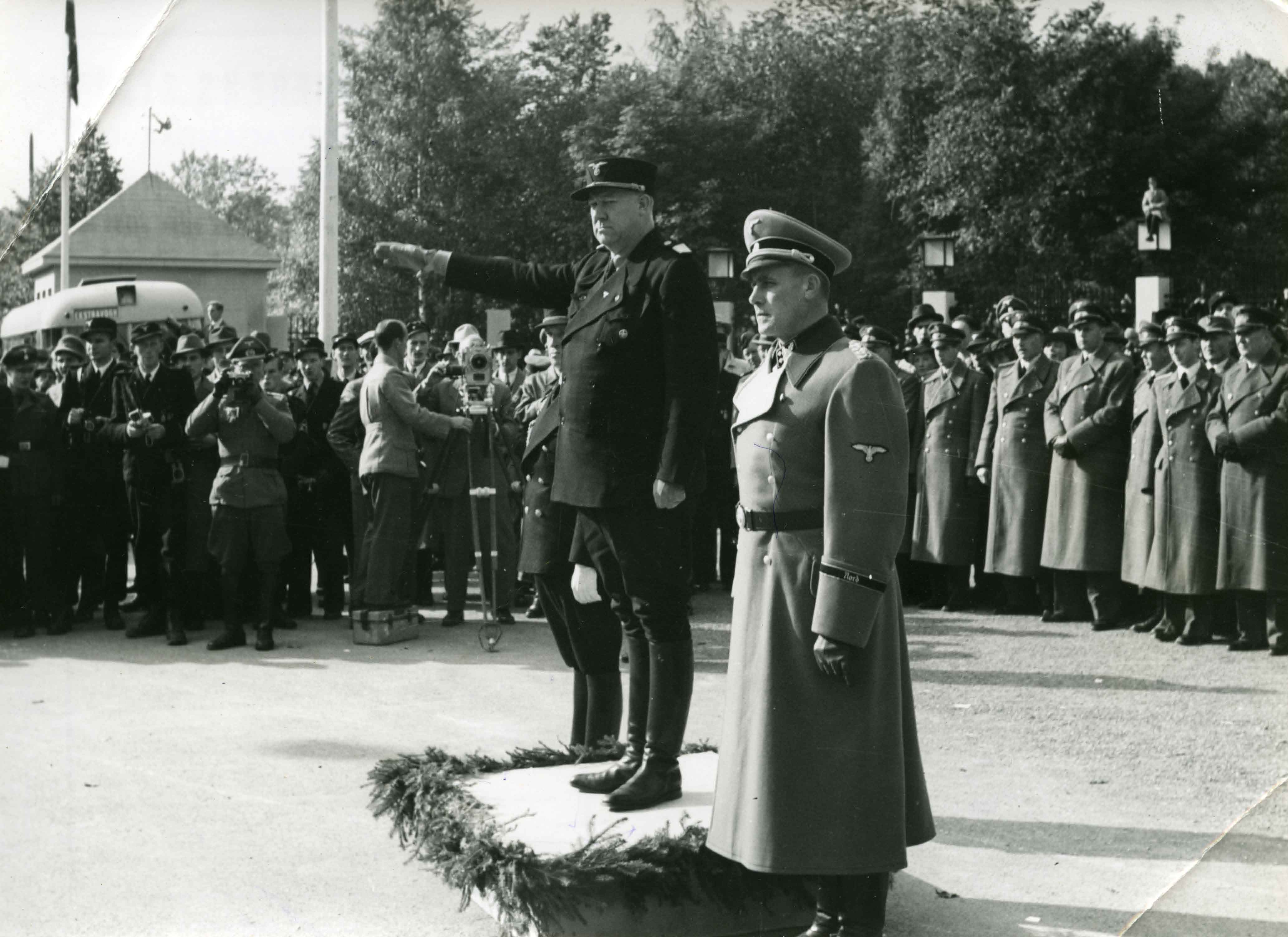 Det 8. riksmøte fant sted 25.-27.9.1942, fotograf: Presse- og propagandaav. Billed- og filmktr. RA/PA-0781/Fa/0001/0018 1147 NS holdt til sammen 7 partilandsmøter i 30-årene, men i løpet av perioden 1940-1945 ble det holdt bare ett riksmøte, 8. riksmøte i Oslo 26.-27.09.1942. Anslagsvis 10 000 deltagere fra hele landet samlet seg i hovedstaden til dette partimøtet. Det rikholdige programmet omfattet blant annet store parader der både arbeidstjeneste, kvinner, SS, NSUF, ung- og småhird defilerte, og i Frognerparken ble det holdt en stor minnemarkering for de falne. Avslutningsarrangementet fant sted på Bislet stadion. NS (the Norwegian Fascist party) held a total of seven party congresses in the 30s, but during the period 1940-1945 there was just one national meeting, the 8th national meeting in Oslo on September 26th and 27th 1942. An estimated 10,000 participants from across the country gathered in the capital for this party meeting. The extensive program included the major parades in which both labor service, women, SS, NSUF, and young party members paraded. There was a large memorial ceremony for the fallen in the Vigeland Park. The closing ceremony took place at Bislett Stadium.